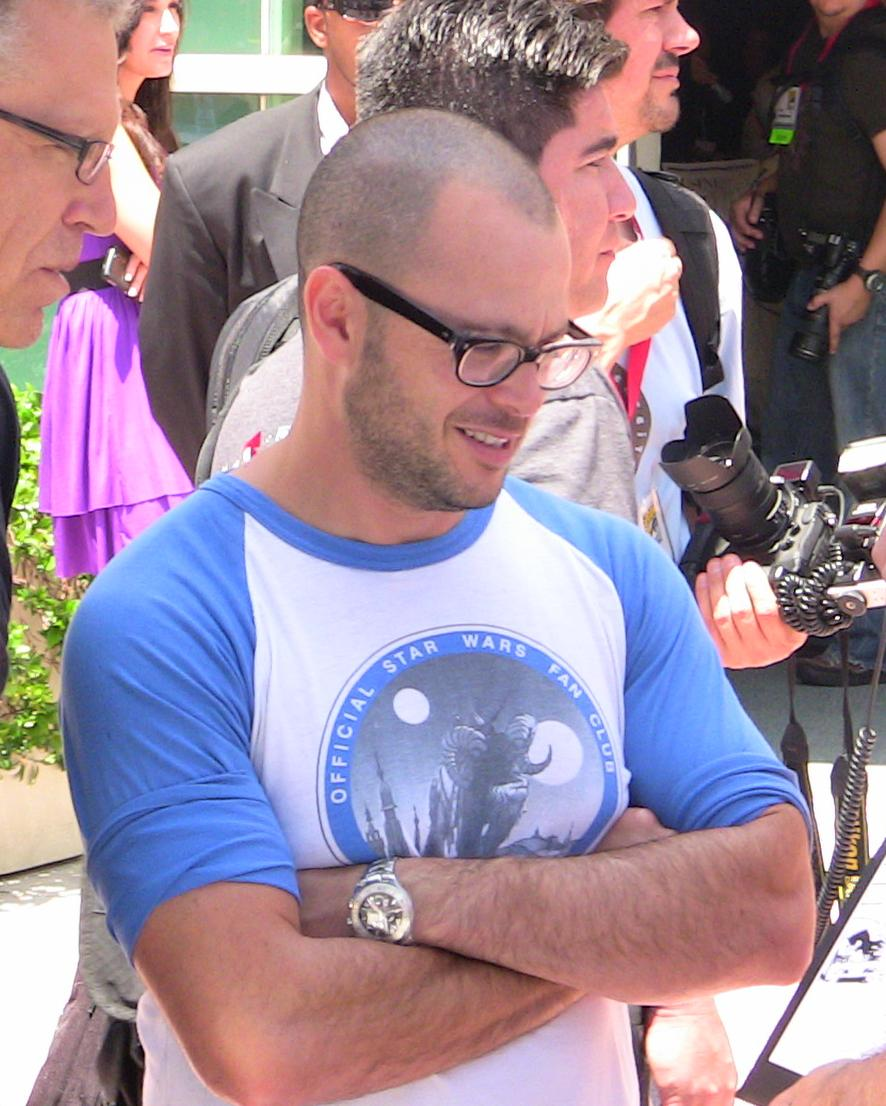 Creator "Lost" Damon Lindelof – Comic-Con 2009 - Lost press room - San Diego, Calif. - July 25, 2009.